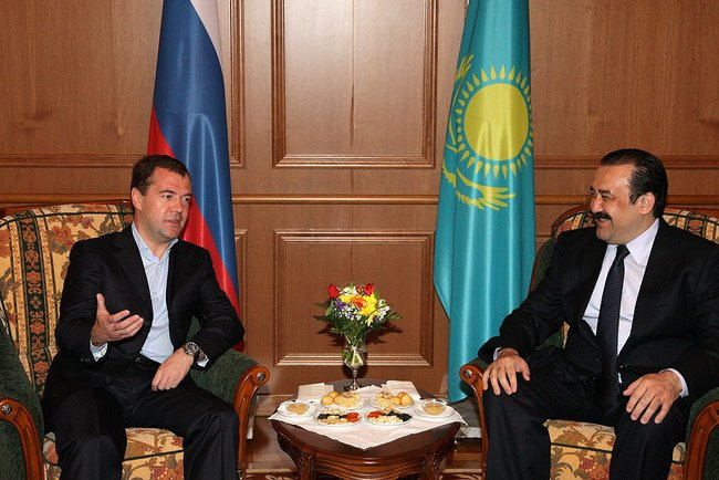 With Prime Minister of Kazakhstan Karim Masimov.